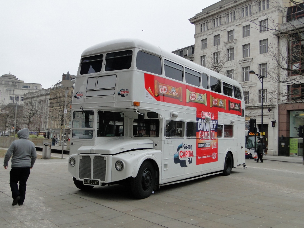 Routemaster bus RML2573 (reg. JJD 573D), seen here at Manchester Piccadilly. After withdrawal from London route service (it was one of the buses used on the last route on the last day on 9 Dec 2005), RML2573 was then converted into a mobile radio station by 95.8 Capital London. As that network expanded to include other stations, and as vehicle graphics technologies advanced, use of it has expanded to include other areas around the country in a variety of frequently changing liveries, invariably advertising both the particular station and one of its partners or promotions. In this case, the project was a Capital FM network wide promotion in association with Kit Kat (hence the generic 96-106 Capital FM logo, as opposed to specific 102 Capital Manchester logo), in which listeners would compete to choose which particular flavour of the Chunky Kit Kat was their 'champion'.